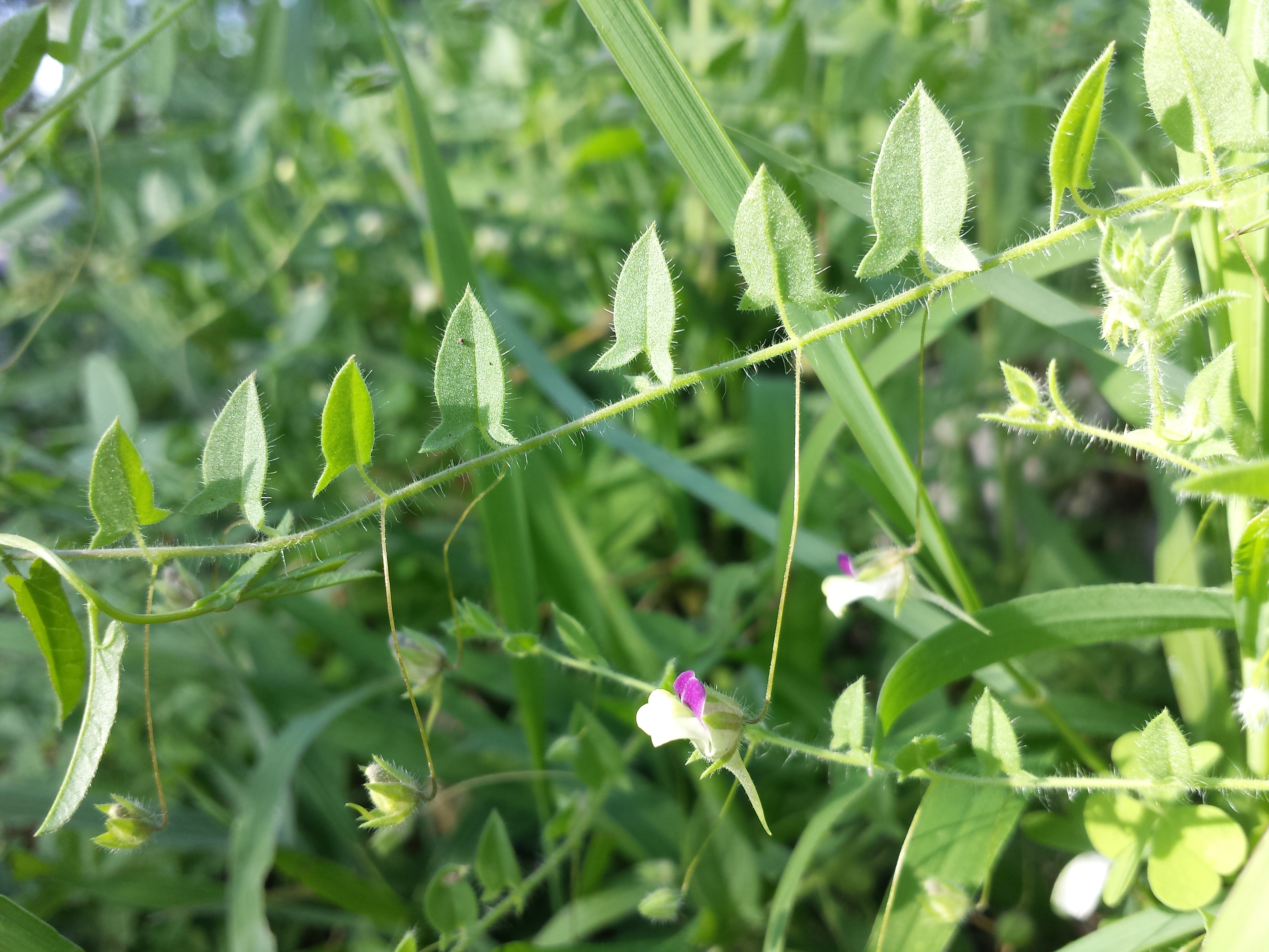 Habitus Taxonym: Kickxia elatine ss Fischer et al. EfÖLS 2008 ISBN 978-3-85474-187-9 Location: Stammersdorfer Zentralfriedhof cemetery, Vienna-Floridsdorf - ca. 160 m a.s.l. Habitat: grave